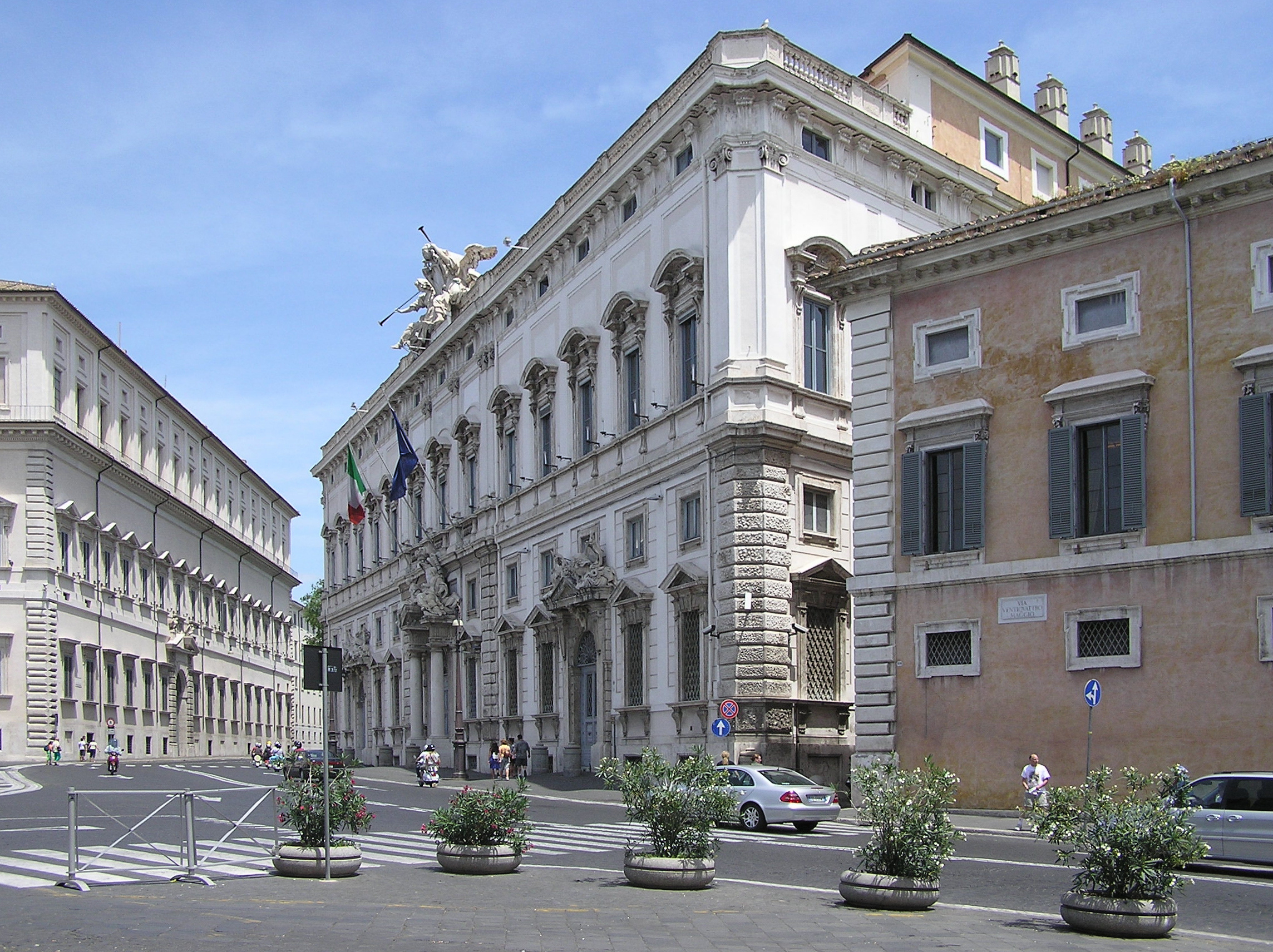 Constitutional Court of Italy in Palazzo della Consulta, Piazza Quirinale, Rome. On the left is the official home of the Italian President, the Palazzo del Quirinale.